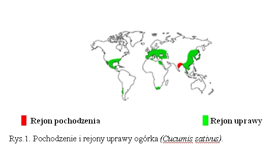 Harvest and orygin of Cucumis sativus.